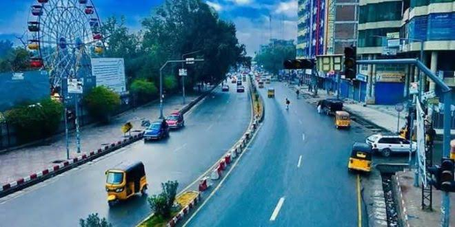 ننګرهار